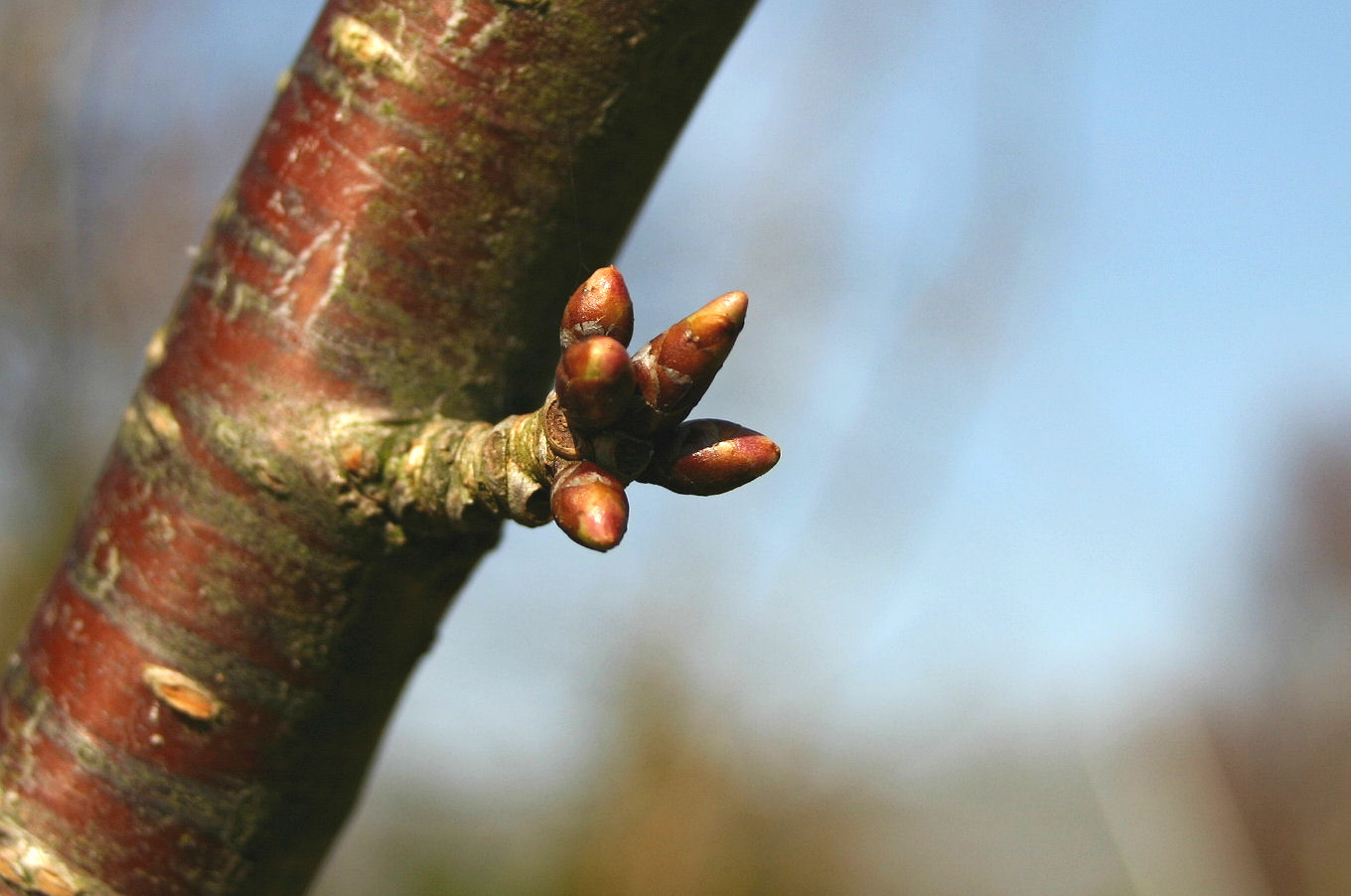 Prunus avium: A cluster of flower-containing buds.